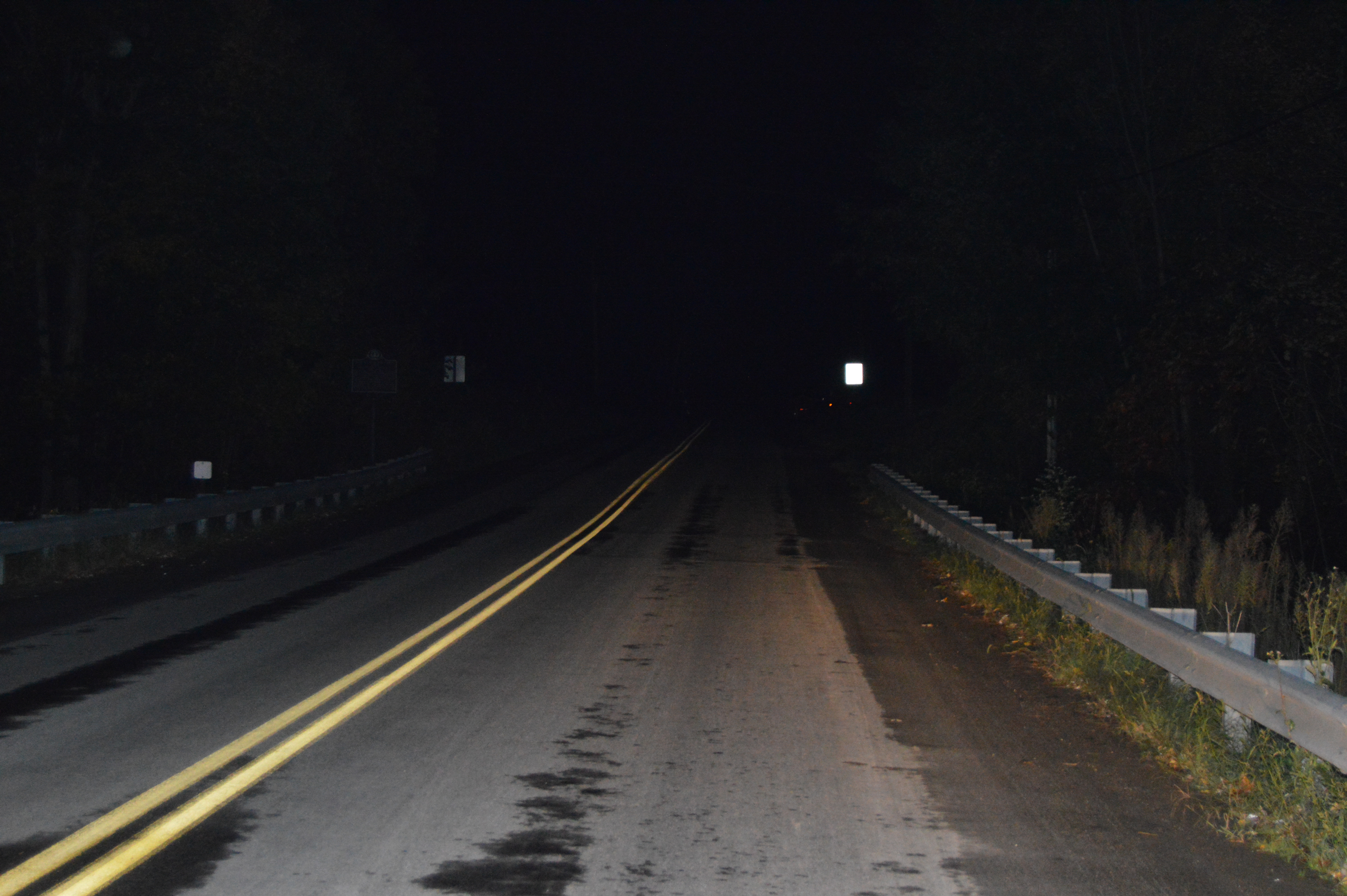 Overview of the bridge that carries Atlantic Lake Road over Unger Run in East Fallowfield Township, Crawford County, Pennsylvania, United States. It replaced the Bridge in East Fallowfield Township, which was built in 1894 and listed on the National Register of Historic Places in 1988; although destroyed, it has not yet been removed from the Register.